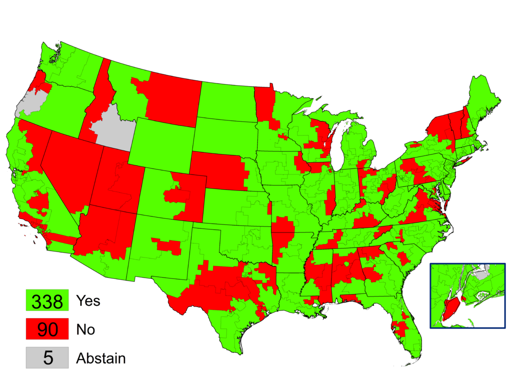 The United States House of Representatives vote on making Martin Luther King Jr. Day a holiday